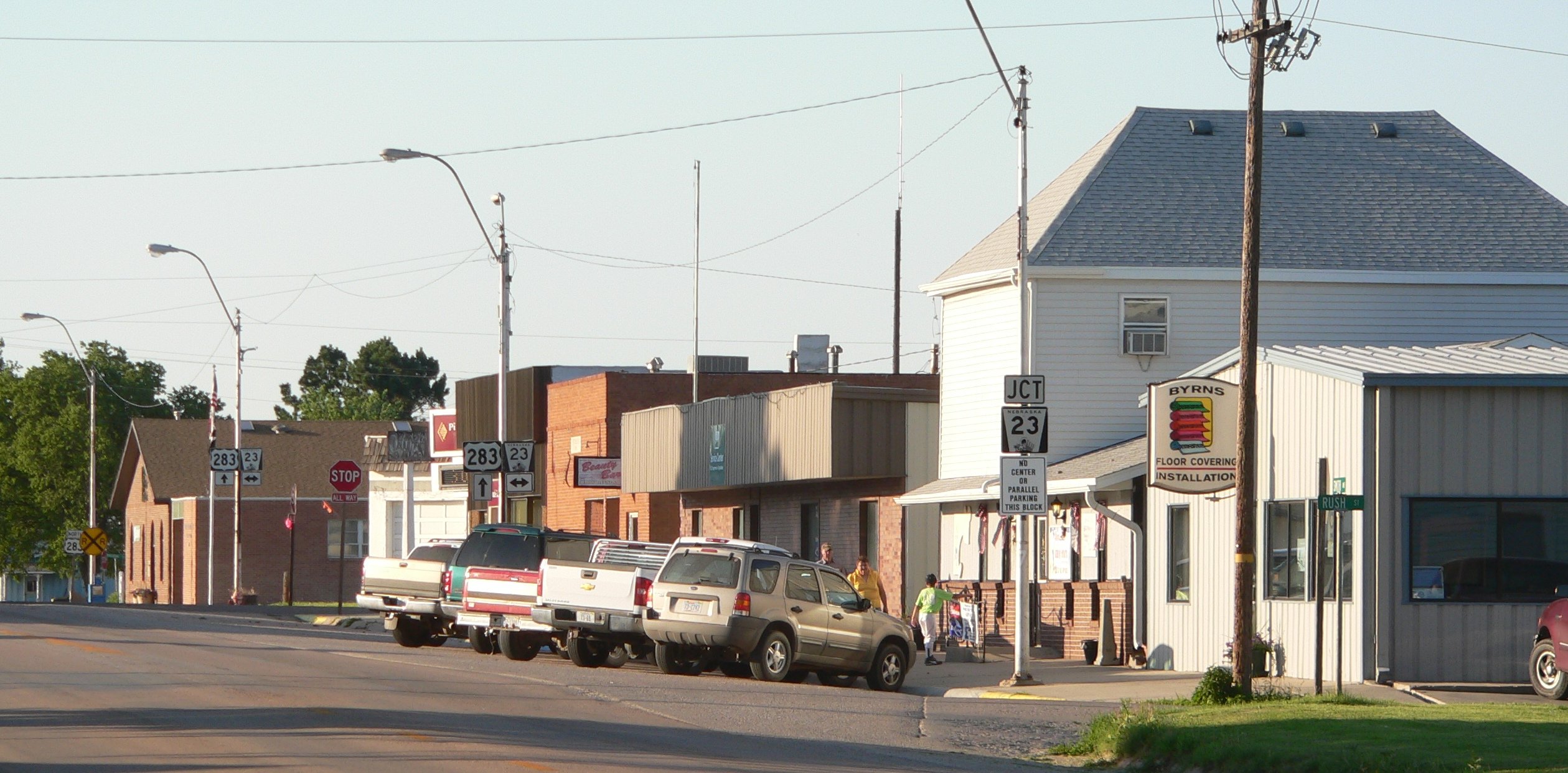 Downtown Elwood, Nebraska: east side of Smith Avenue (U.S. Highway 283), looking south from about Rush Street.